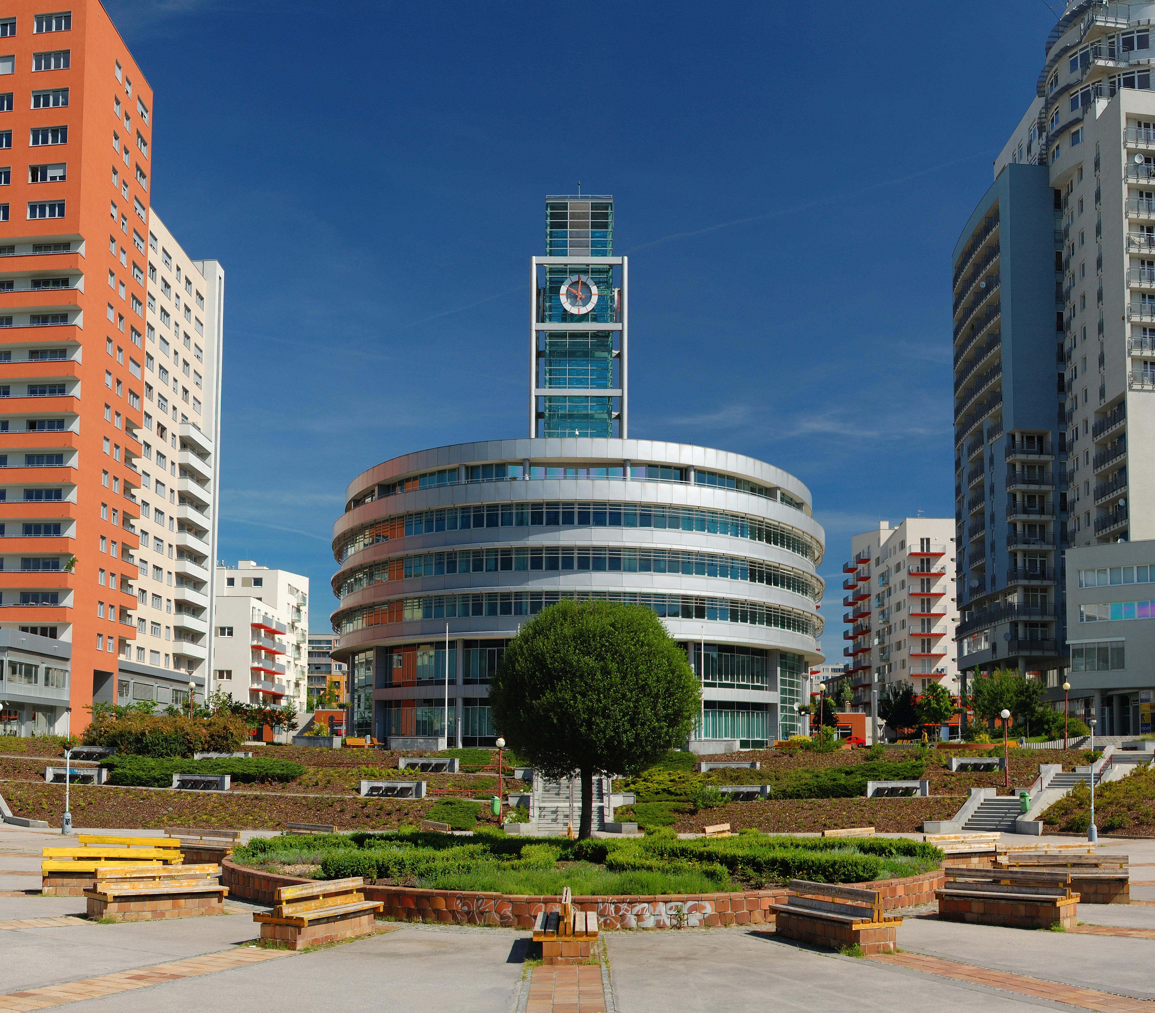 Sluneční náměstí (Sun Square) in Prague 13. The building in the middle is the town hall of Prague 13. This image was created with Hugin.